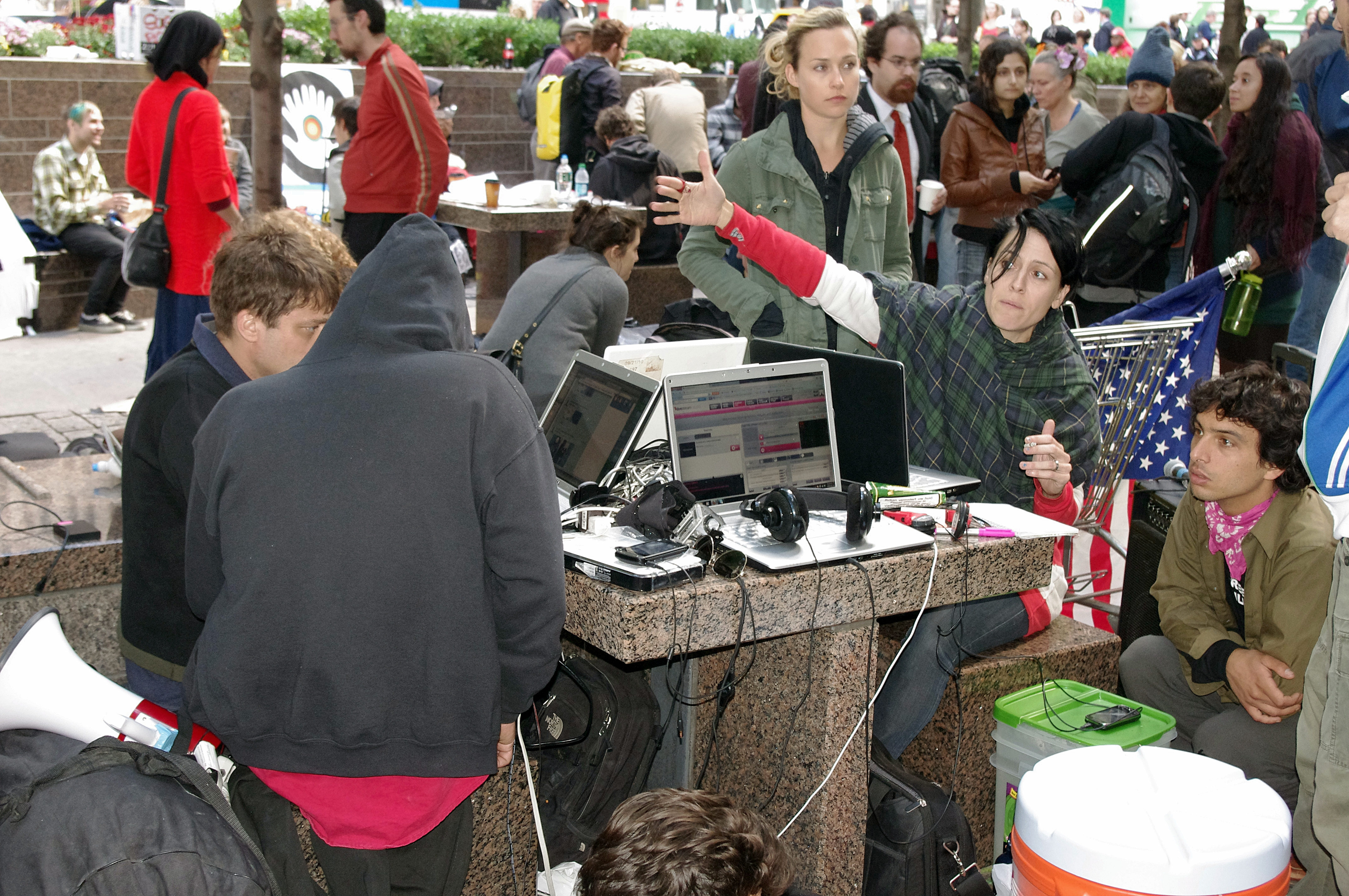 Day 3 of the protest Occupy Wall Street in Manhattan's Zuccotti Park.